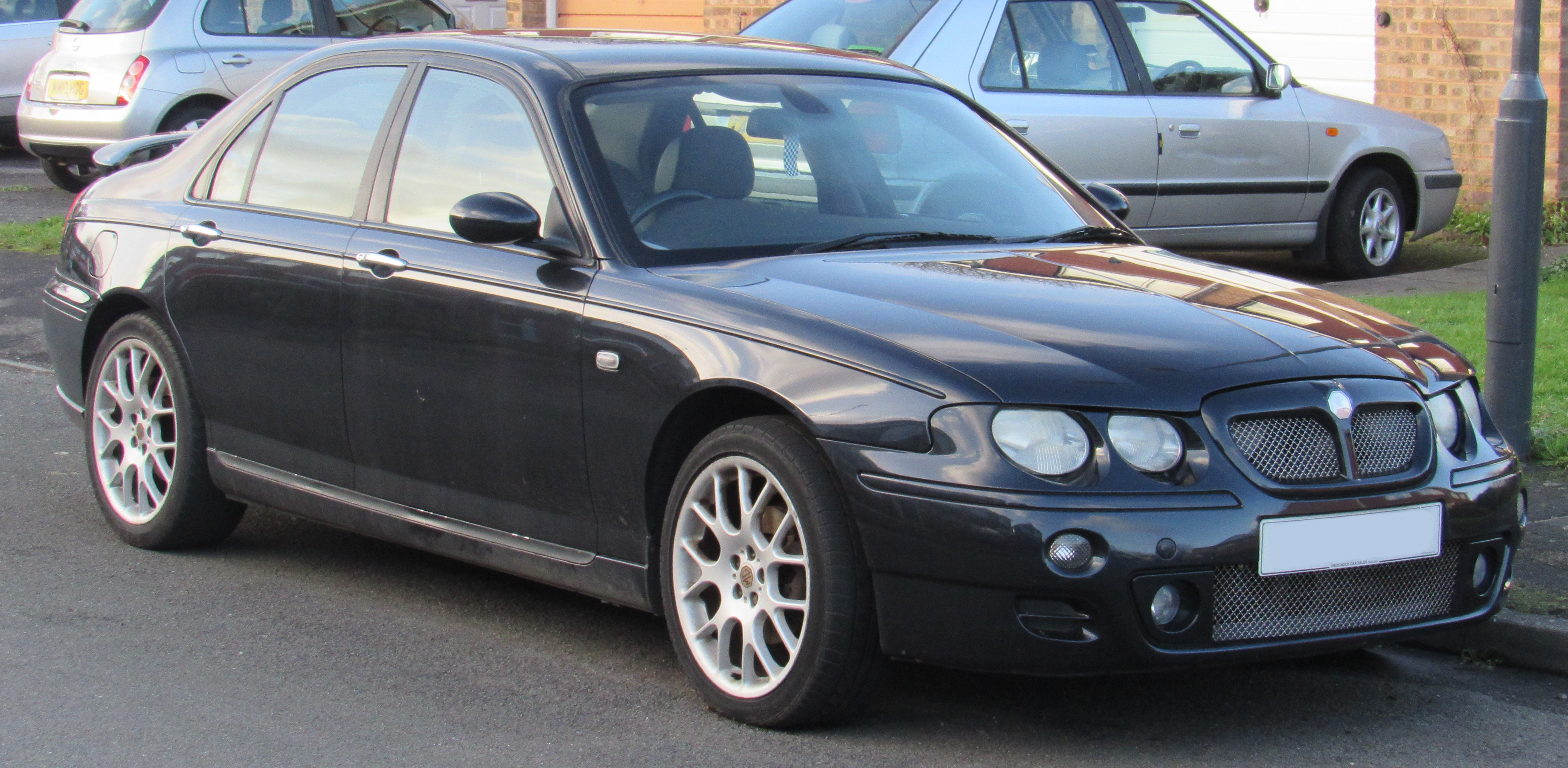 2002 MG ZT+ 2.5 Front Taken in Warwick